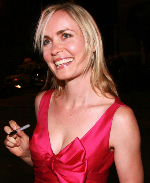 Radha Mitchell at the 2009 Toronto International Film Festival.